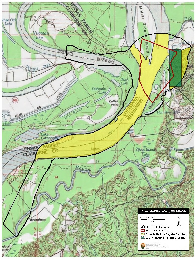 Map of battlefield core and study areas. The Study Area was modified to reflect the historic boundaries of the Mississippi River, which was used by Federal forces to approach Grand Gulf, and to include the landing site of the Federal XIII Corps at Hard Times Plantation. The Core Area was adjusted to conform to the historic boundaries of the Mississippi River, and was extended to include the maximum range of the guns involved in the bombardment of Grand Gulf’s two forts – Fort Cobun in the north and Fort Ward in the south – by Federal Naval forces from the water.